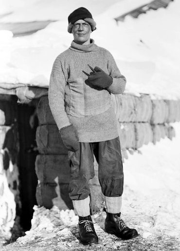 Edward Atikinson (1881-1929), member of the Terra Nova Expedition (1910-1913)